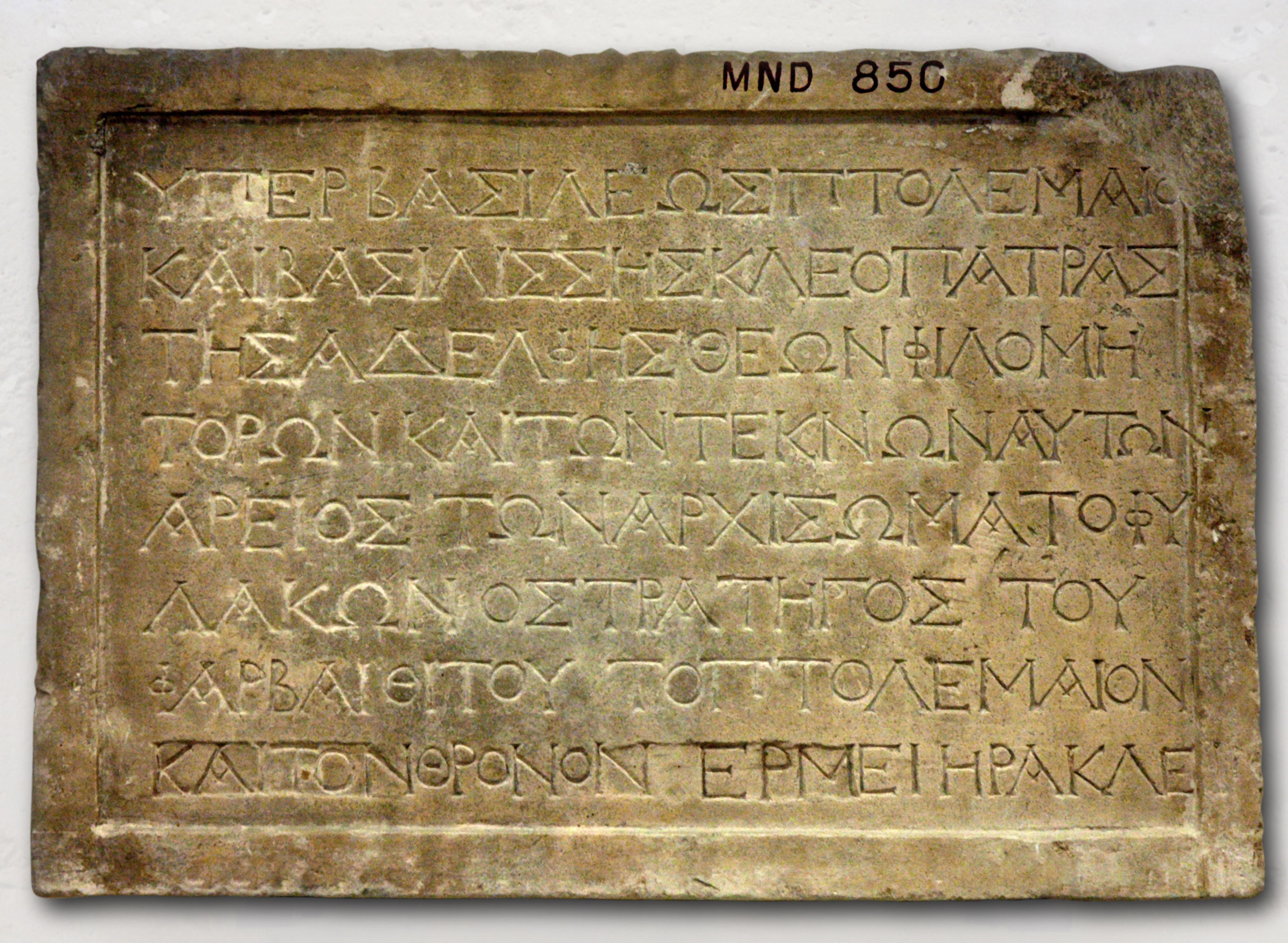 Dedication to Ptolemy VI of Egypt. Egyptian limestone, middle of the 2nd century BC, found in 1907 at Horbeit.